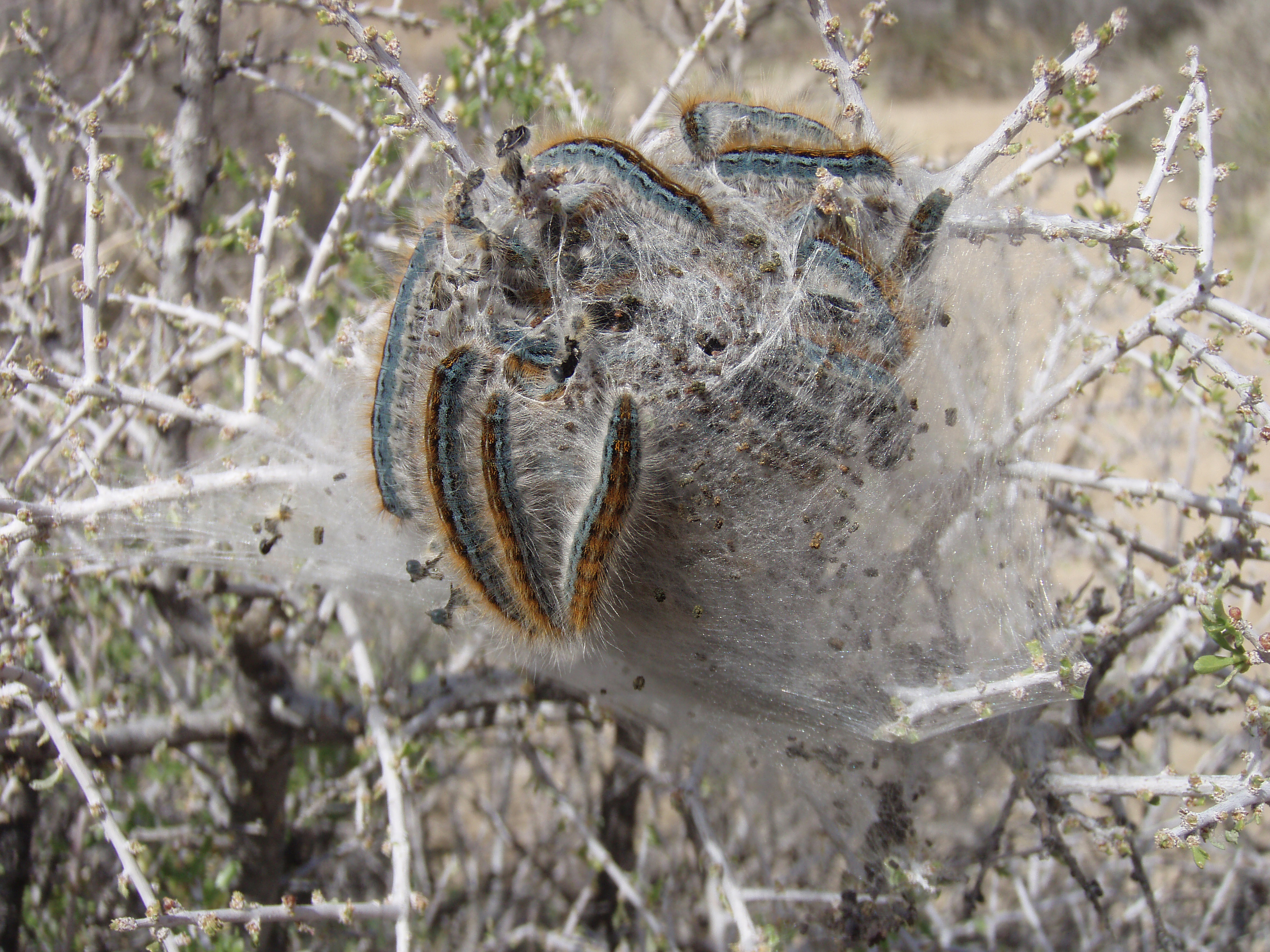 Western tent caterpillar, Malacosoma californicum and their tent in Joshua Tree National Park